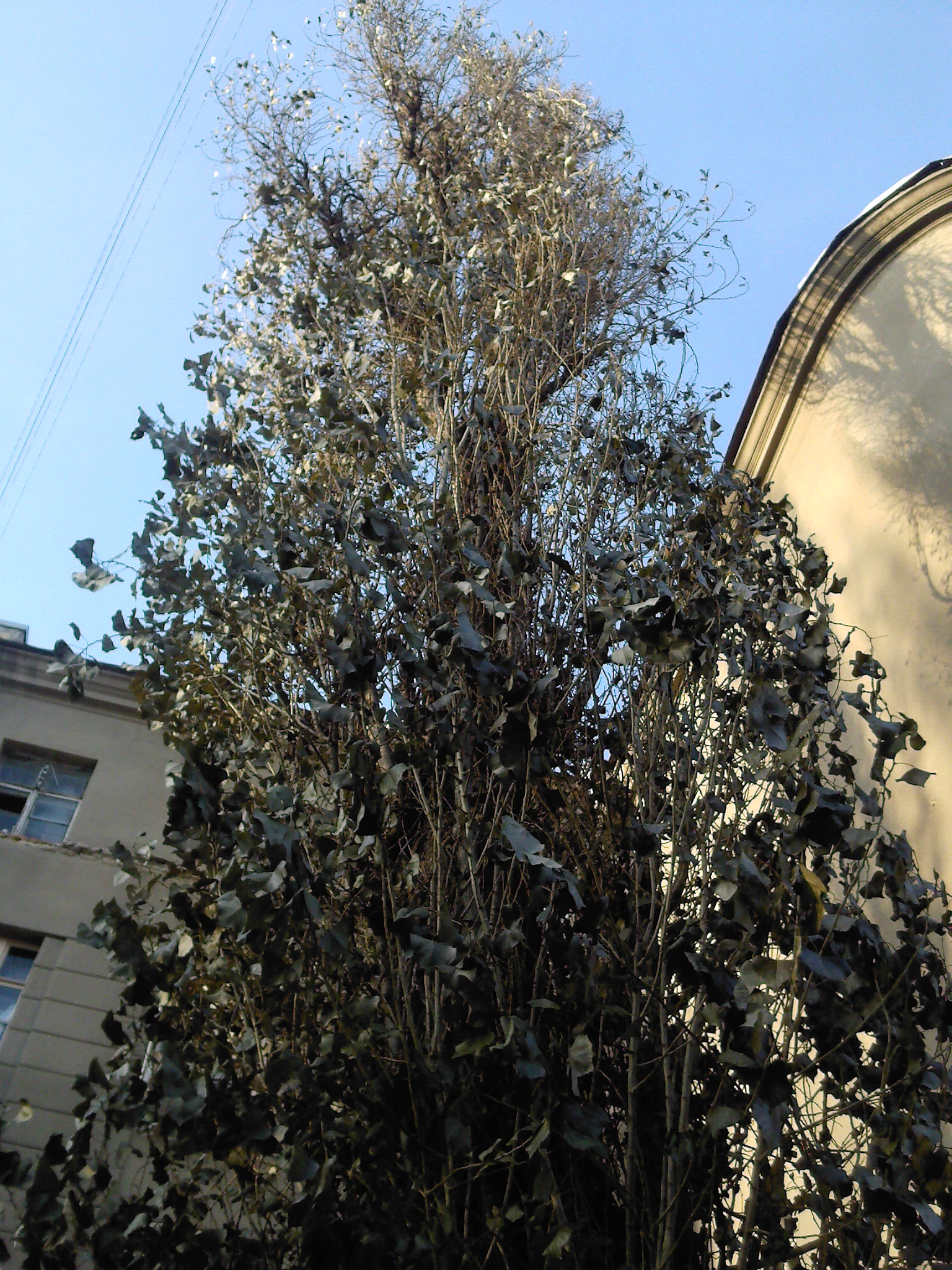 Because of heat waves, and then the abnormally warm November, the biorhythm of a poplar was shot down and it had not started to turn yellow, remained fully green to December.